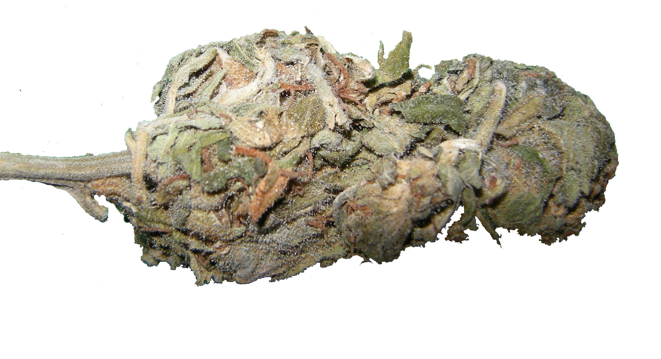 This is an extremely moldy bud of the Acapulco Gold marijuana variety